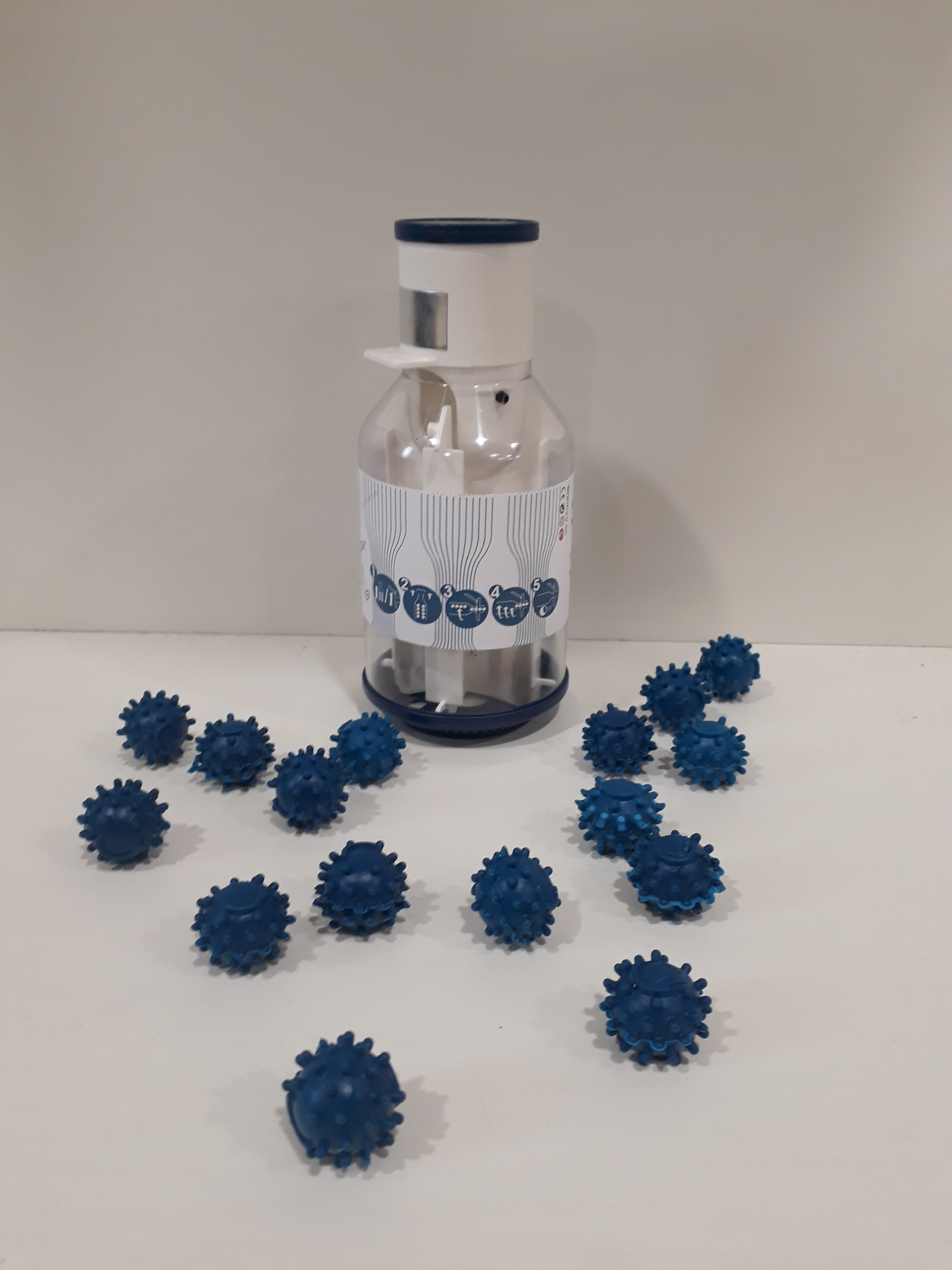 Central vacuum cleaner cleaning tool